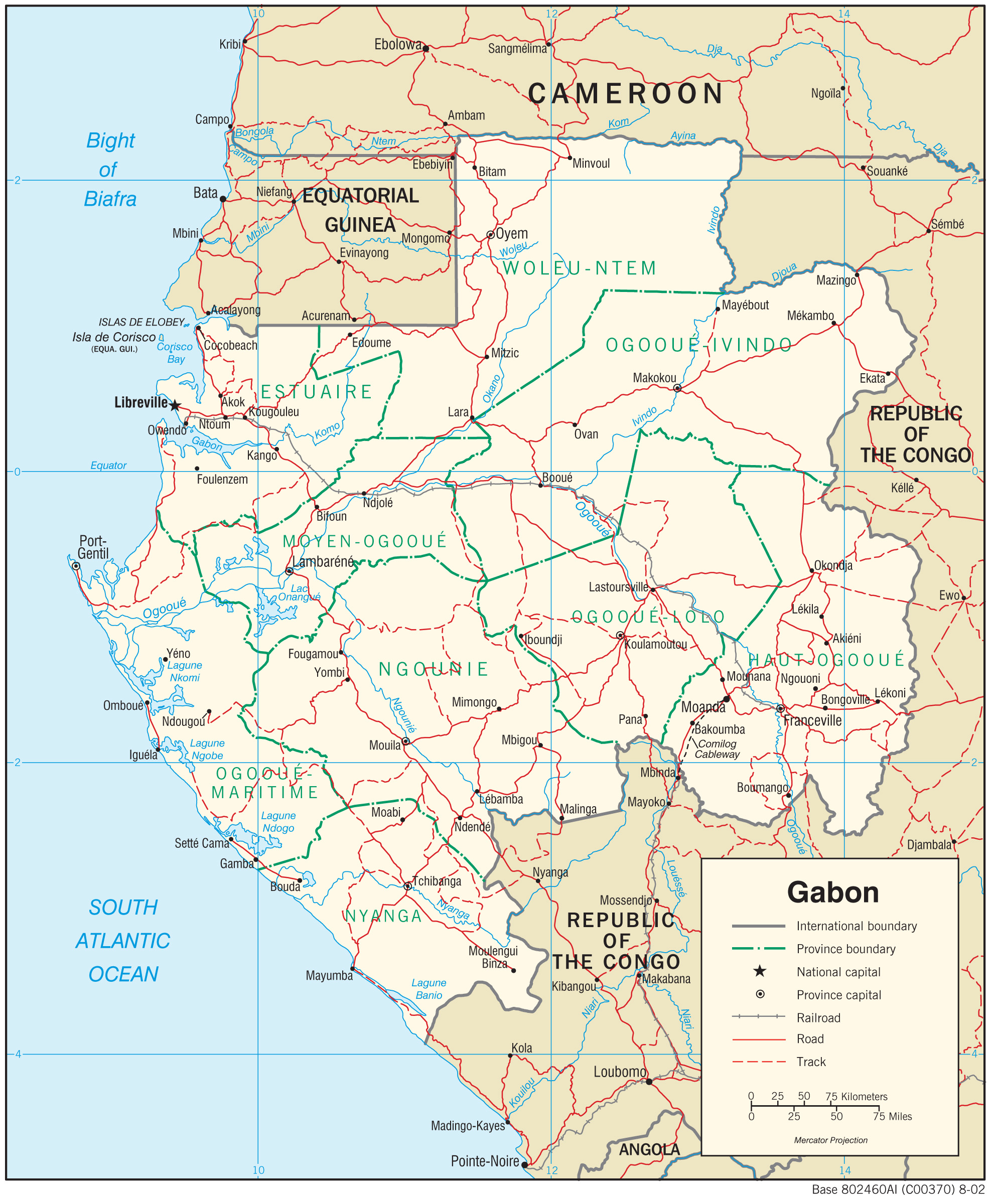 Transport system in Gabon, 2002.